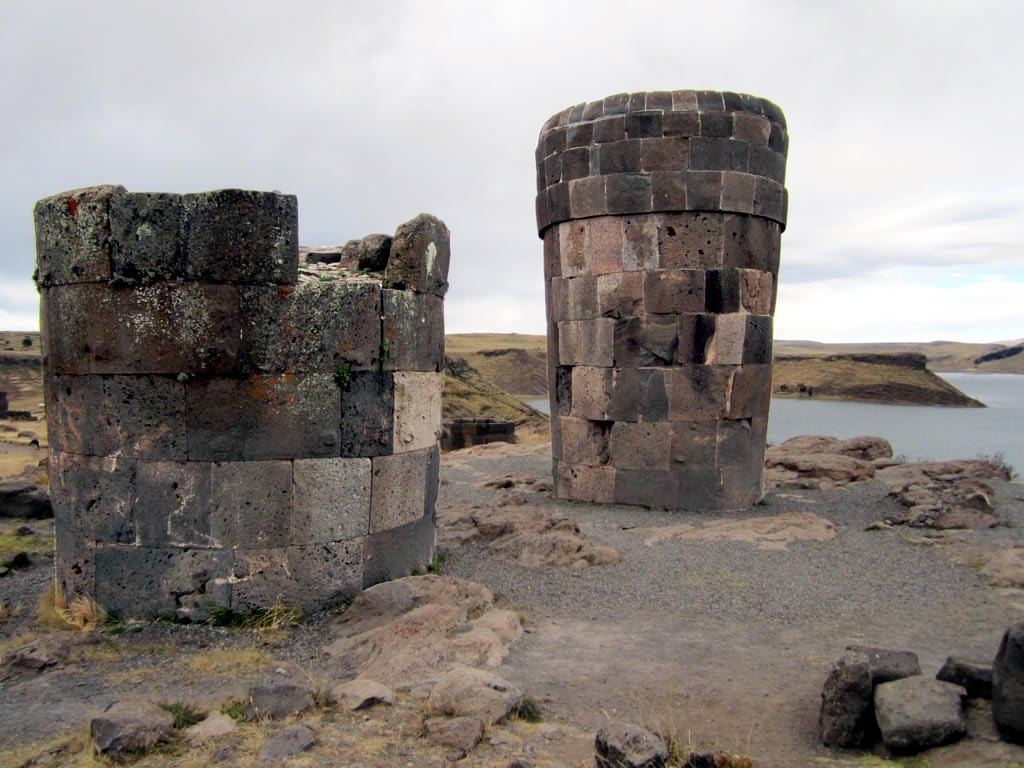 Pre-Hispanic funeral towers overlooking Lake Umayo at the Sillustani Archaeological Site northwest of Puno, Pero.